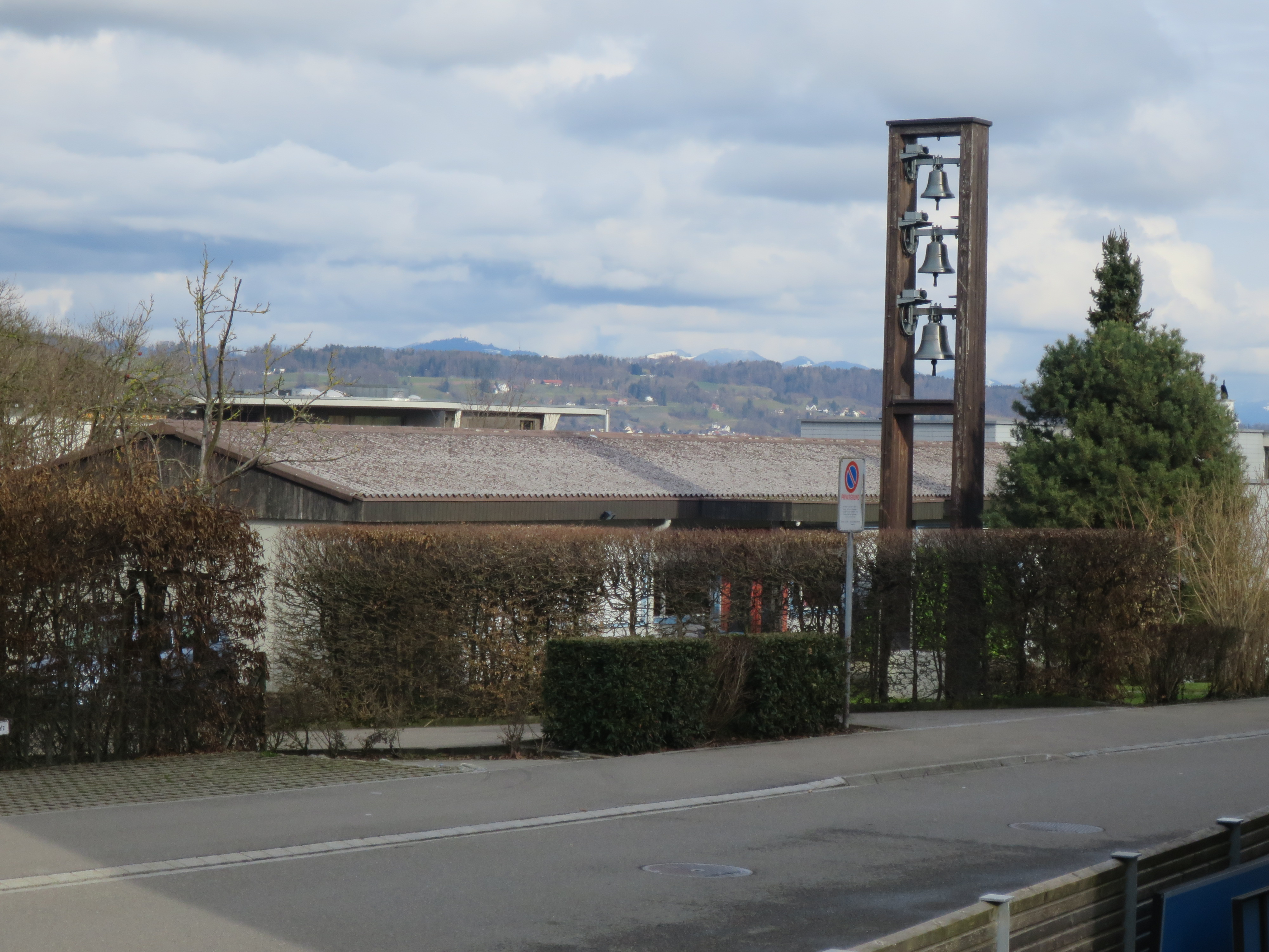 Der reformierte Kirchenpavillon Au (1972; Glockenturm 1978)